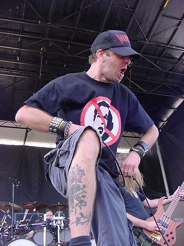 Lamb of God at Ozzfest, Jones Beach, New York July 14, 2004 [1]